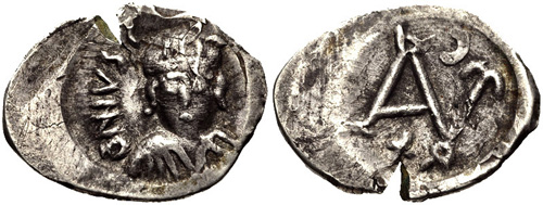 AR 100 Nummi (16mm, 1.12 g, 6h), minted in Carthage in 565-578 AD during the reign of the byzantine king Justin II. Helmeted and cuirassed facing bust, holding shield / Monogram; cross above, C (100) below.